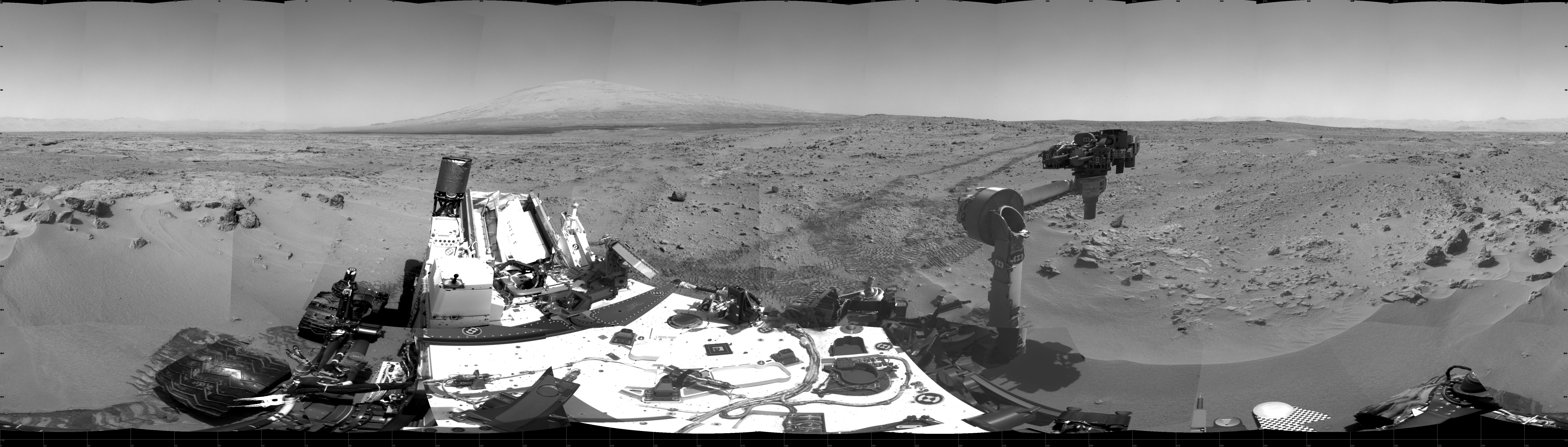 10.12.2012 Curiosity's Location During First Scooping This 360-degree scene shows the surroundings of the location where NASA Mars rover Curiosity arrived on the 59th Martian day, or sol, of the rover's mission on Mars (Oct. 5, 2012). It is a mosaic of images taken by Curiosity's Navigation Camera (Navcam) on sols 59 and 60. Smooth surfaces of the windblown sand and dust of the "Rocknest" area, in the foreground, are what signaled from a distance that this might be an appropriate place to spend about three weeks collecting and using the mission's first few scoopfuls of soil. The rover scooped up its first sample on Sol 61 (Oct. 7, 2012). South is at the center of this panorama, north at both ends. Mount Sharp is on the horizon in the southeast. The "Glenelg" area planned as the next destination lies to the east. Tracks that Curiosity's wheels made while driving toward Rocknest recede toward the west. For scale, Curiosity leaves parallel tracks about 9 feet (2.7 meters) apart. The scene is presented here as a cylindrical projection. Image Credit: NASA/JPL-Caltech